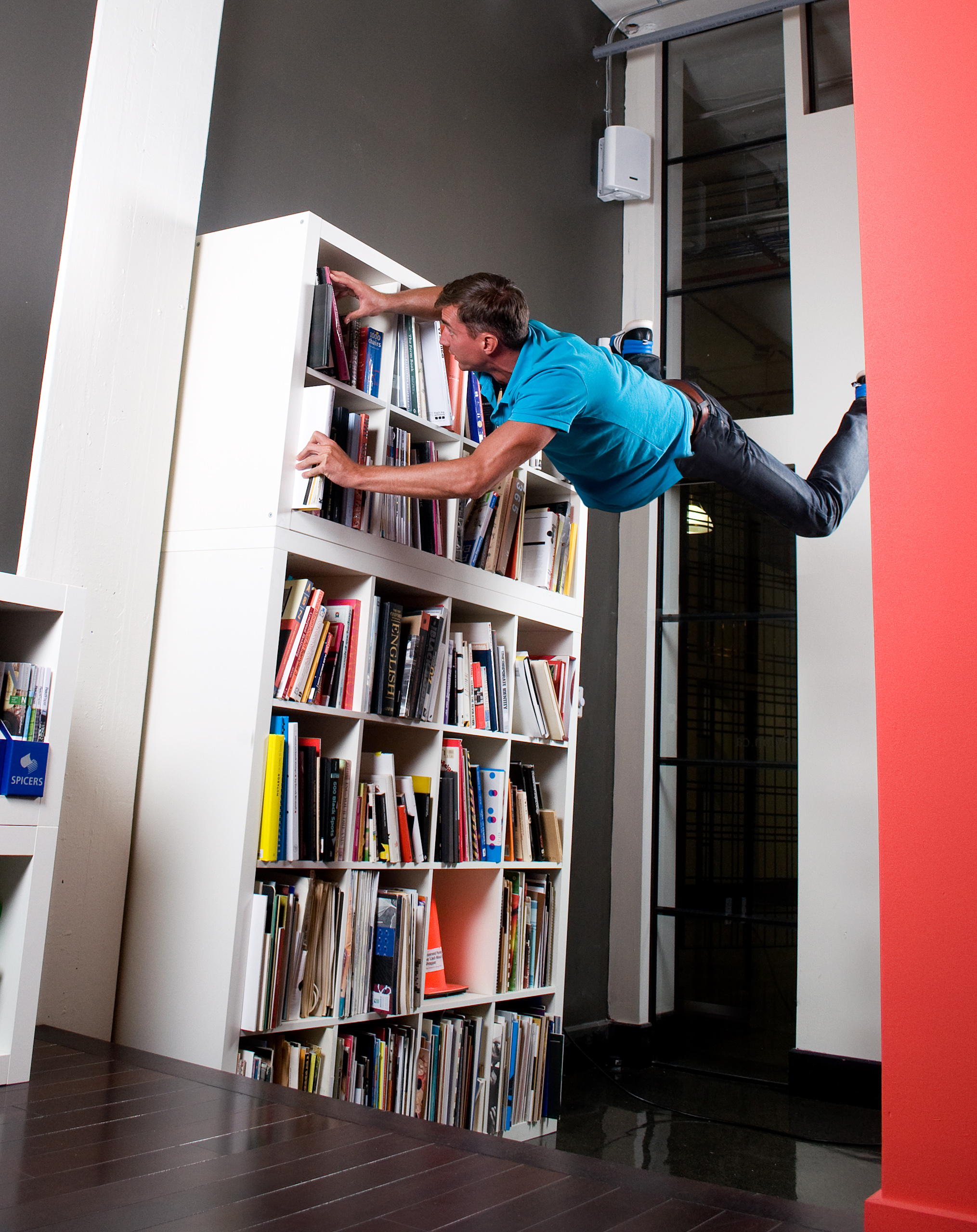 Just looking for a book